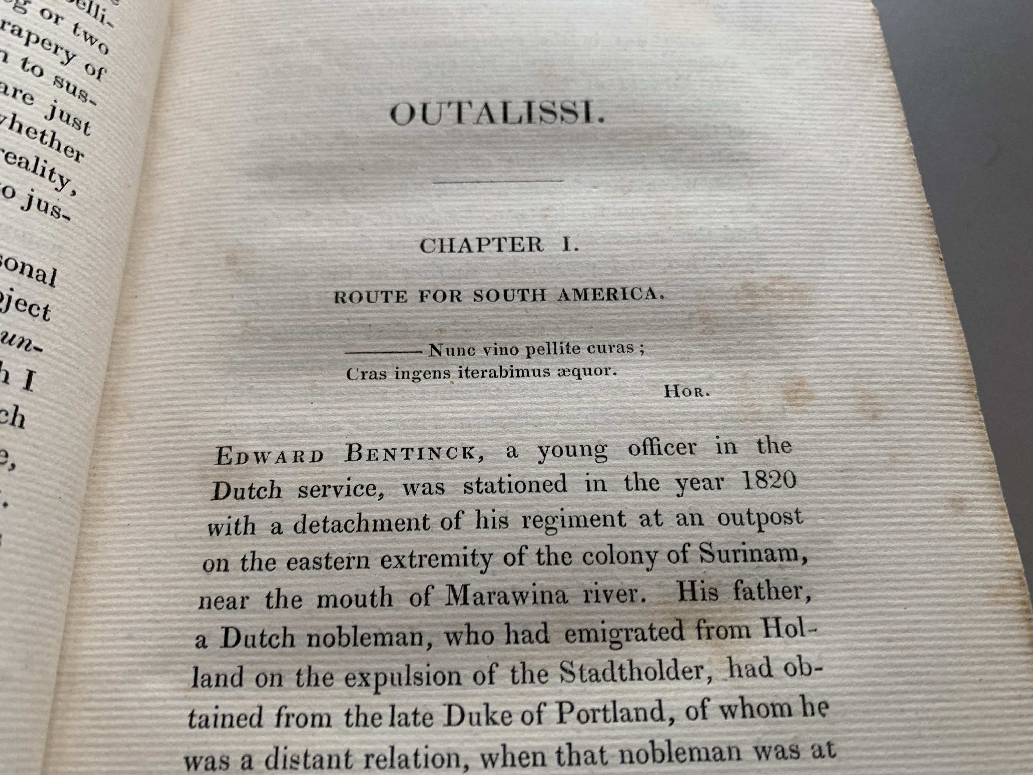 This is a rare antiquarian book. It is a novel about a revolt of the slaves in de Dutch colony of Surinam. At the time it caused great indignity in the colony and was never translated into Dutch.